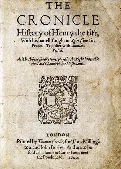 Title page of Q1 The Chronicle History of Henry Fift (1600)